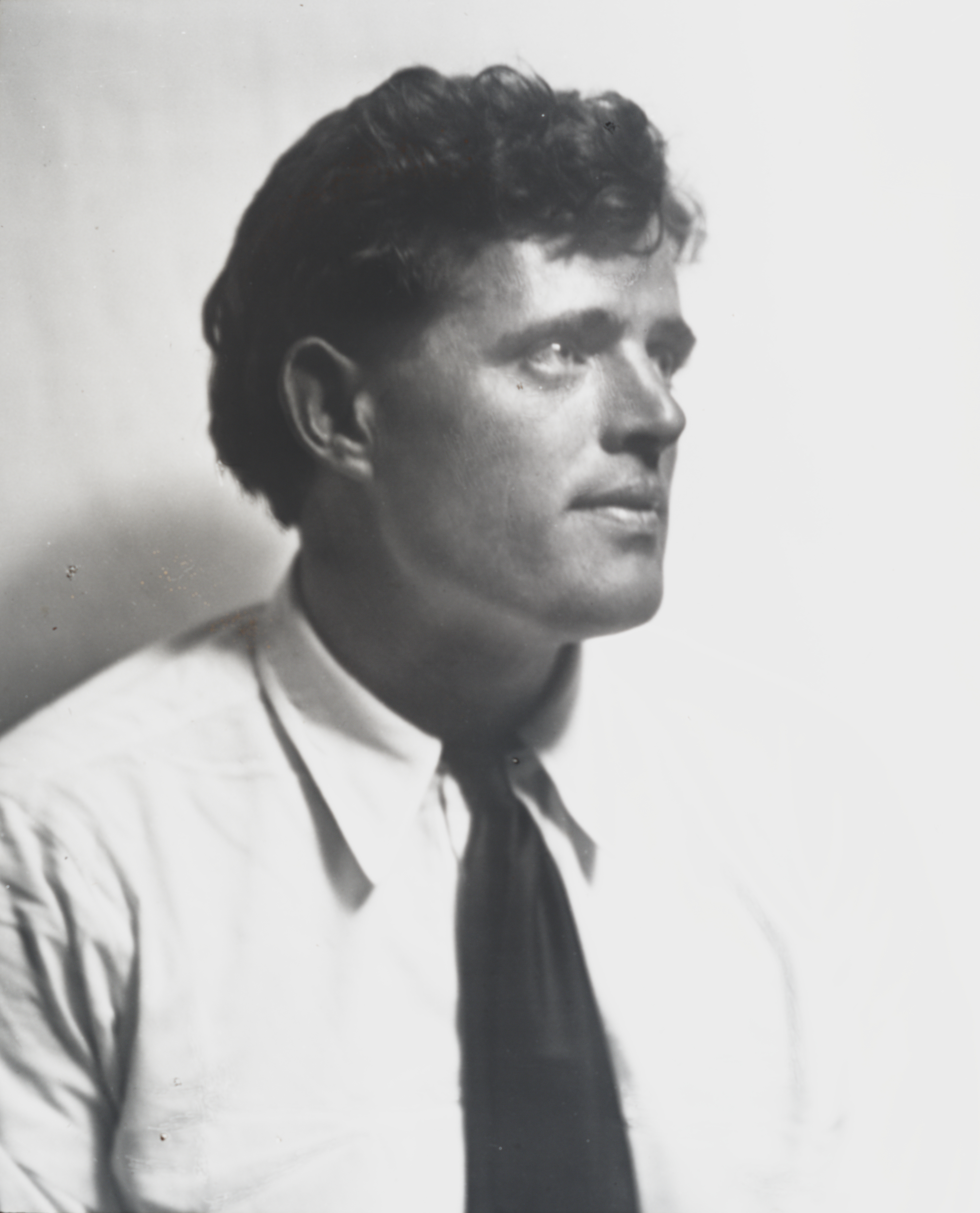 Portrait photograph of Jack London